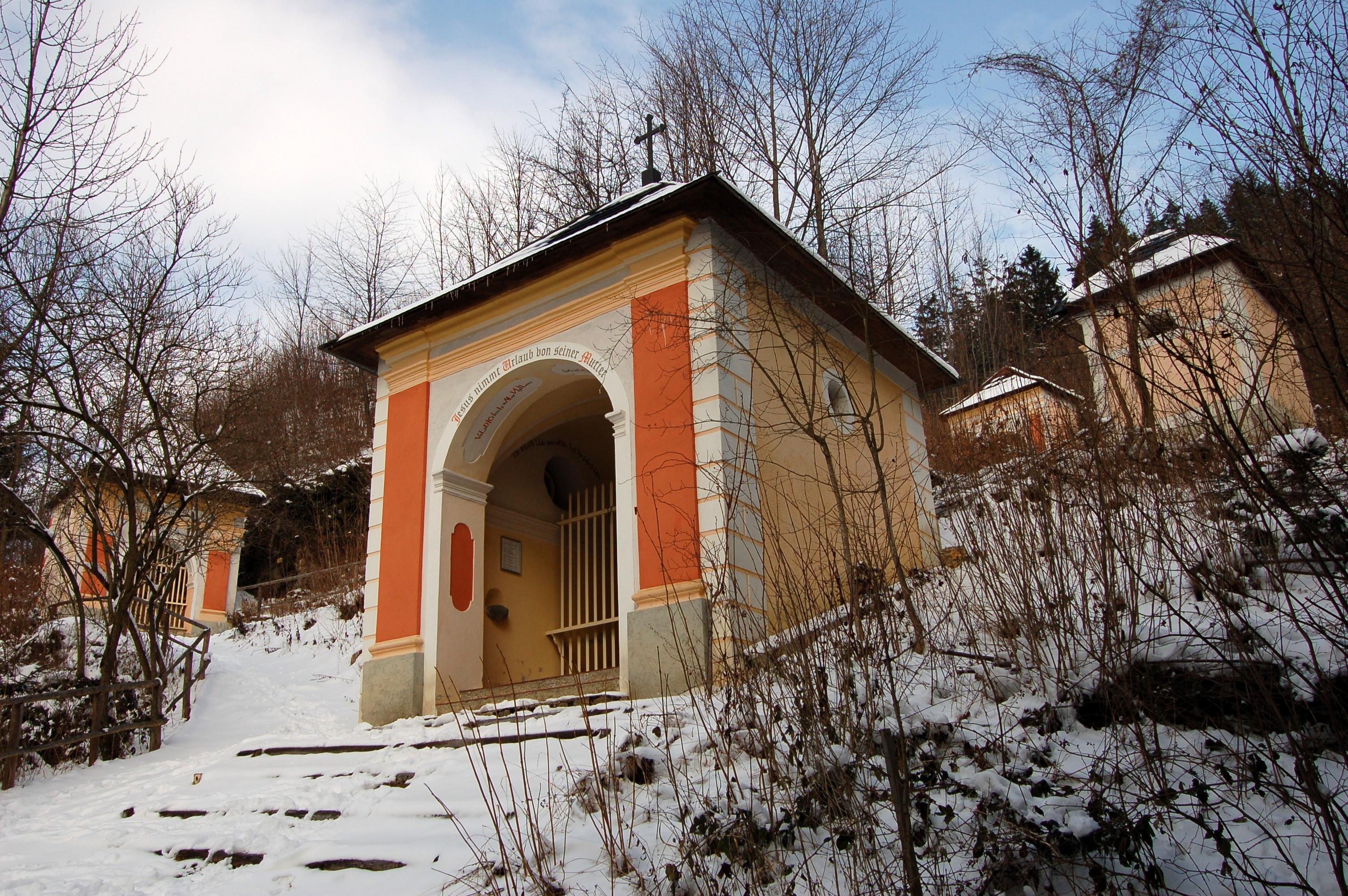 Way of the Cross in Kirchberg am Wechsel, Lower Austria: so-called Urlauberkapelle